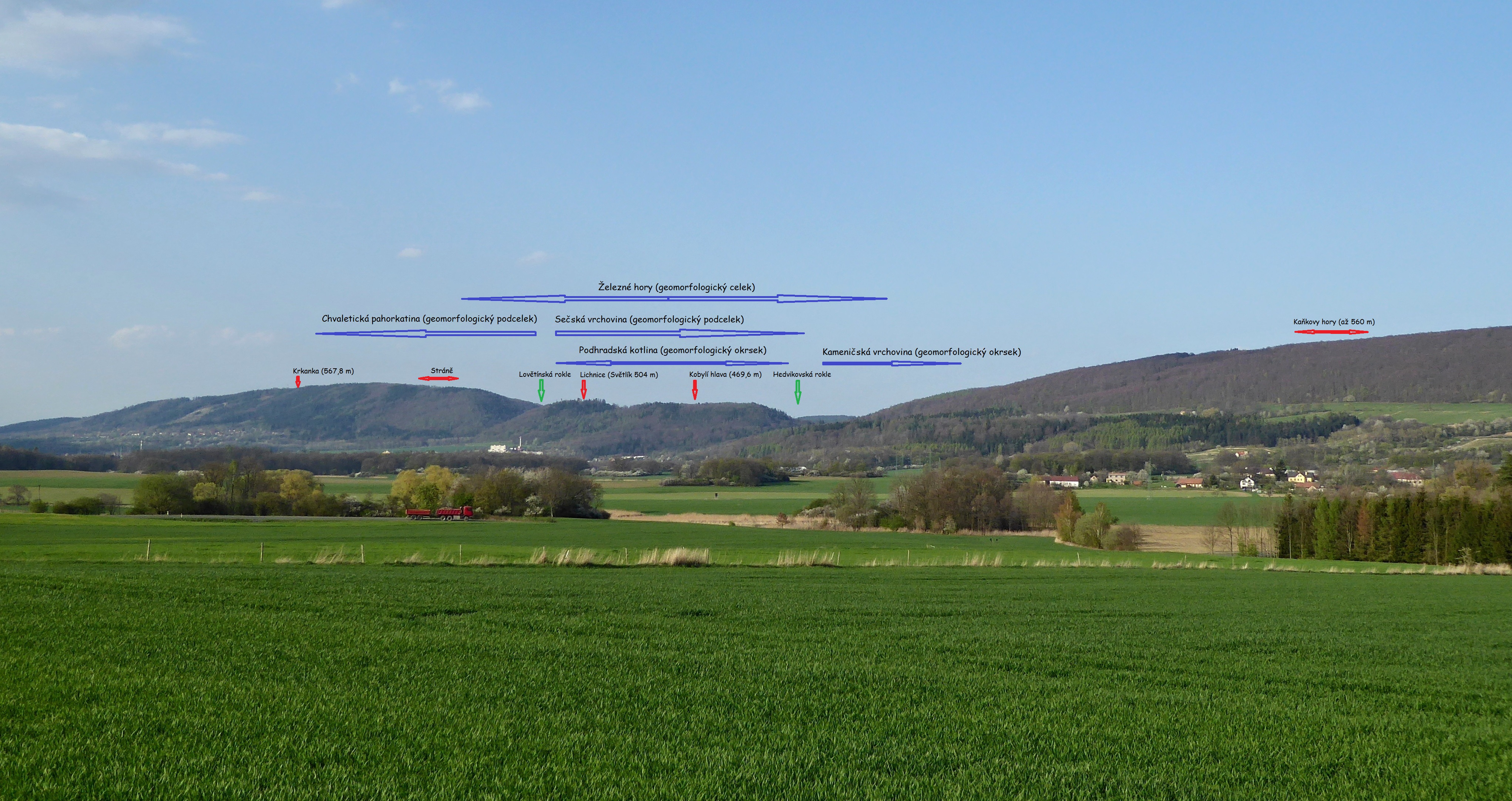 Iron Mountains are mountain range and geomorphological whole with total area of 761.77 km square in the northern part Bohemian-Moravian highlands in Czechia. The geomorphological whole has two parts with the names: Chvaletická Uplands and Sečská Highlands. The ridge of the range above Třemošnice is interrupted by two gorges, Lovětínská and Hedvikovská. Part of the ridge is belong to the geomorphological District with the name Podhradská Basin. To the right of the Podhrad basin the geomorphological District Kameničská Highlands continues. Photo location: Czechia, Pardubice Region, villages Pařížov.